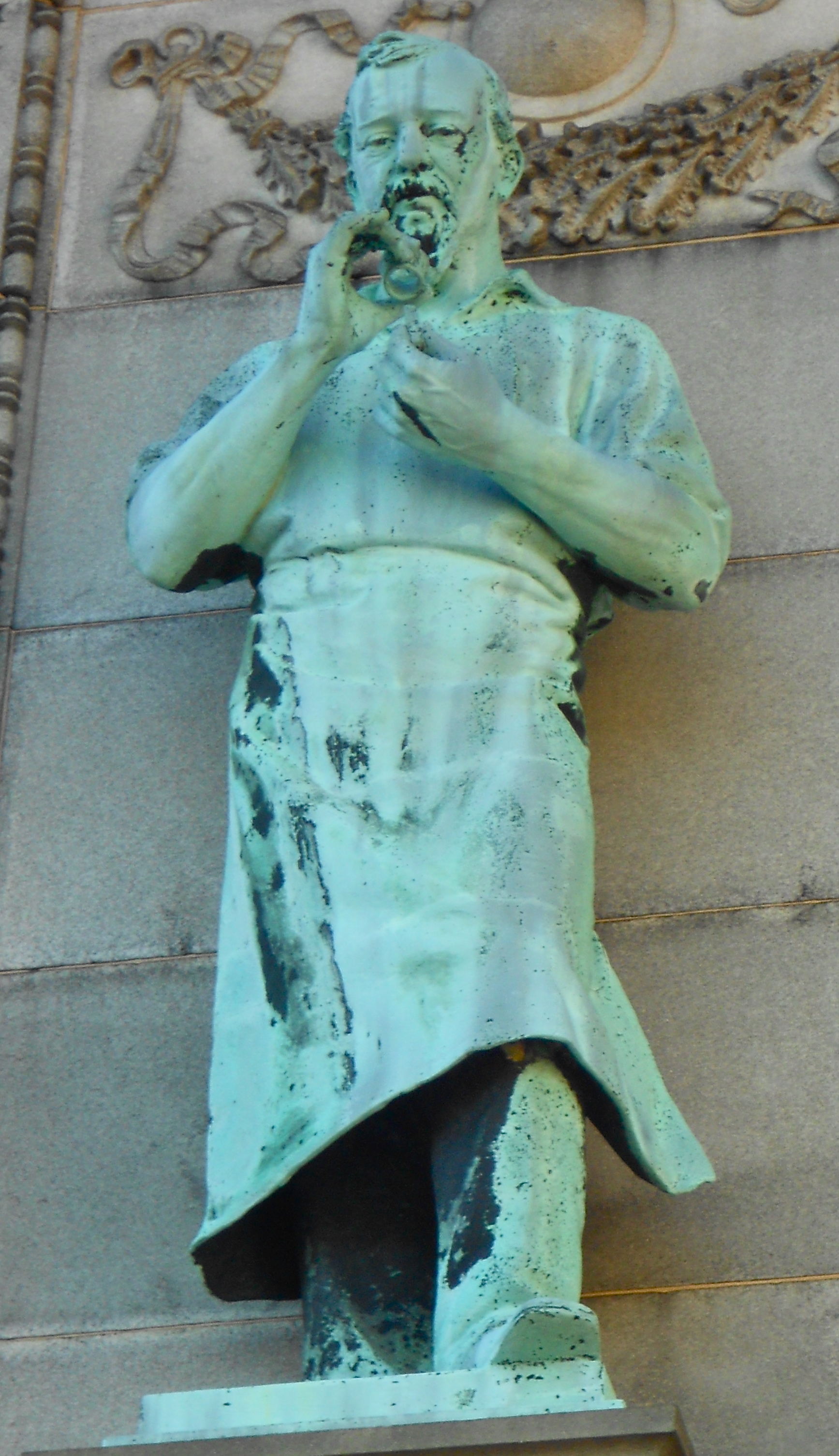 Statue of Richard Smith, who earned a fortune in casting type for printing, left $500,000 for the Civil War Memorial called the Smith Memorial Arch. Sculptor Herbert Adams (1858-1945) Statue located on the Smith Memorial Arch just west of the Schuylkill River in Philadelphia, Pennsylvania.